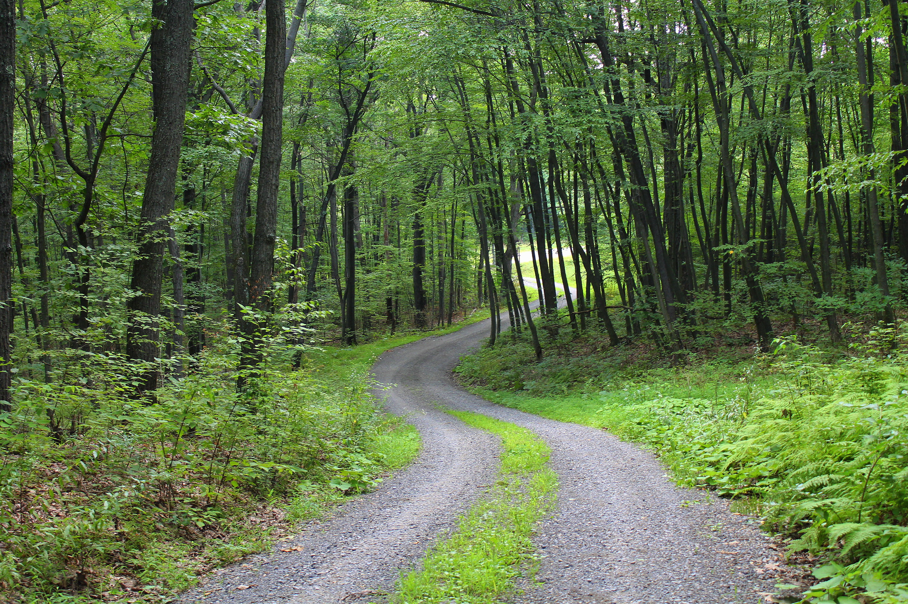 Gameland Road, the main path through Pennsylvania State Game Lands Number 115.